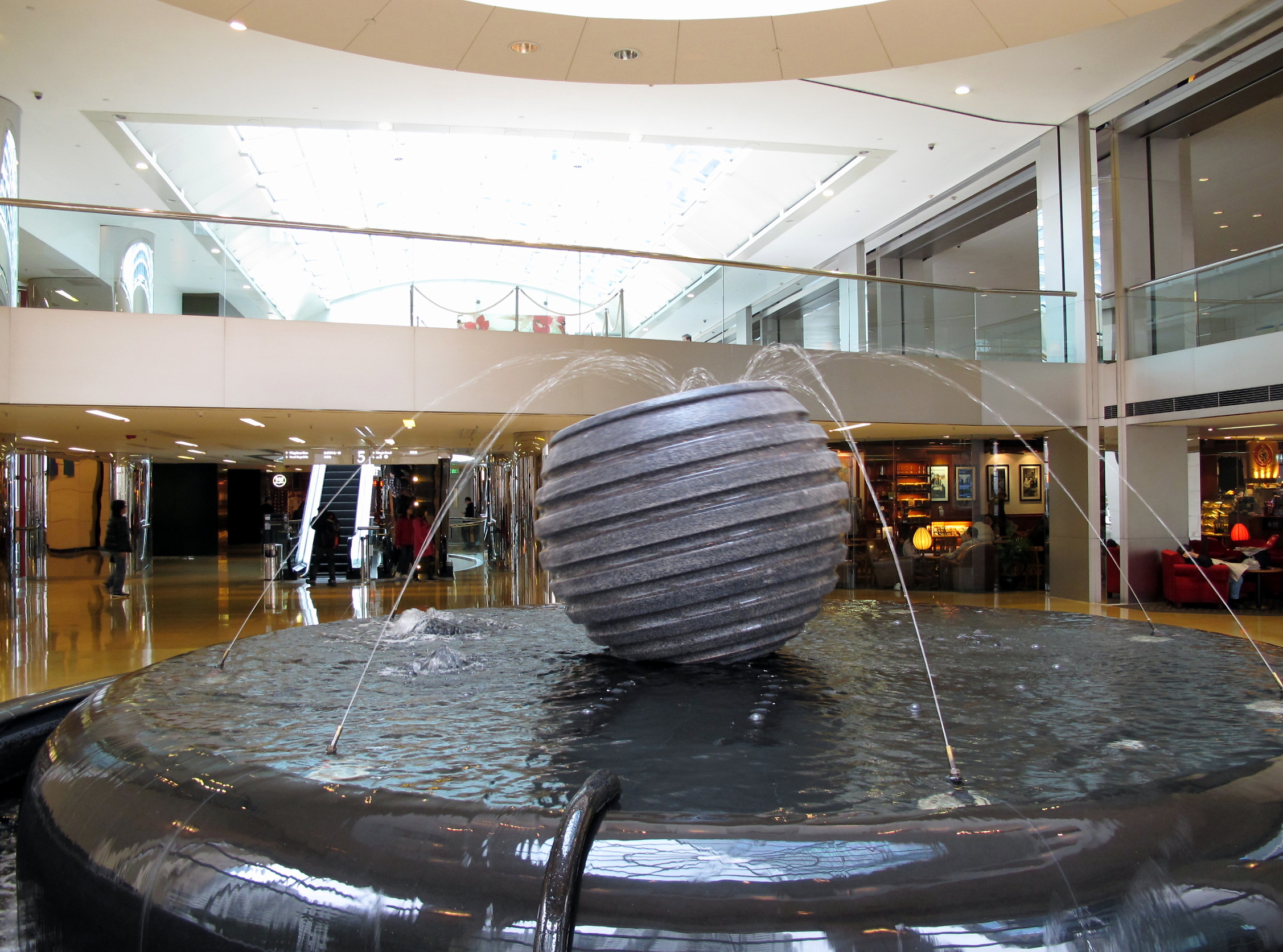 Cityplaza Phase 1 Level 5